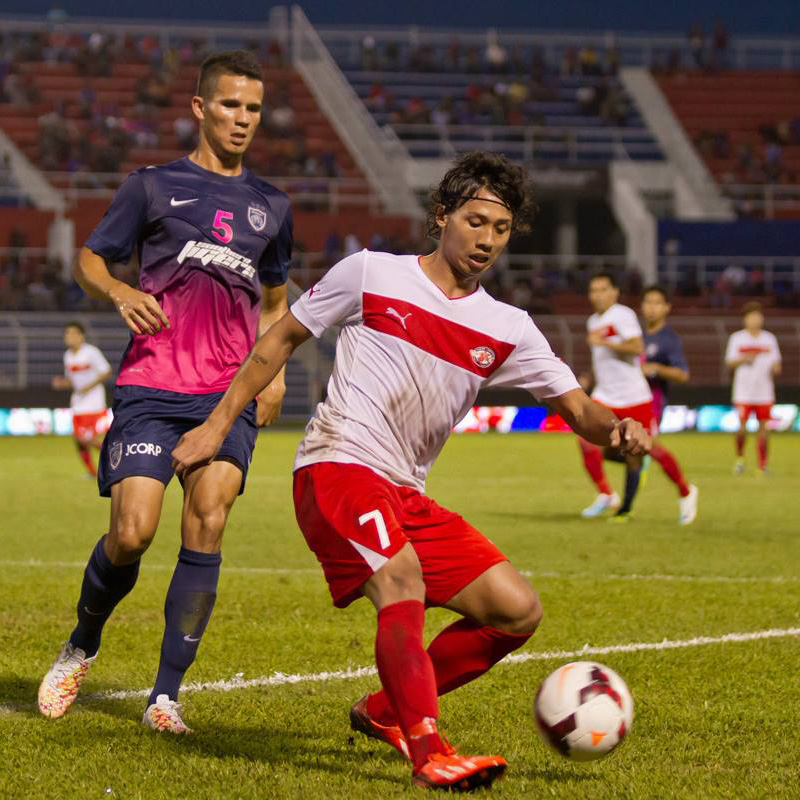 Bruno Castanheira playing in a pre-season match against Johor Darul Ta'zim at Larkin Stadium on 11 January 2014.